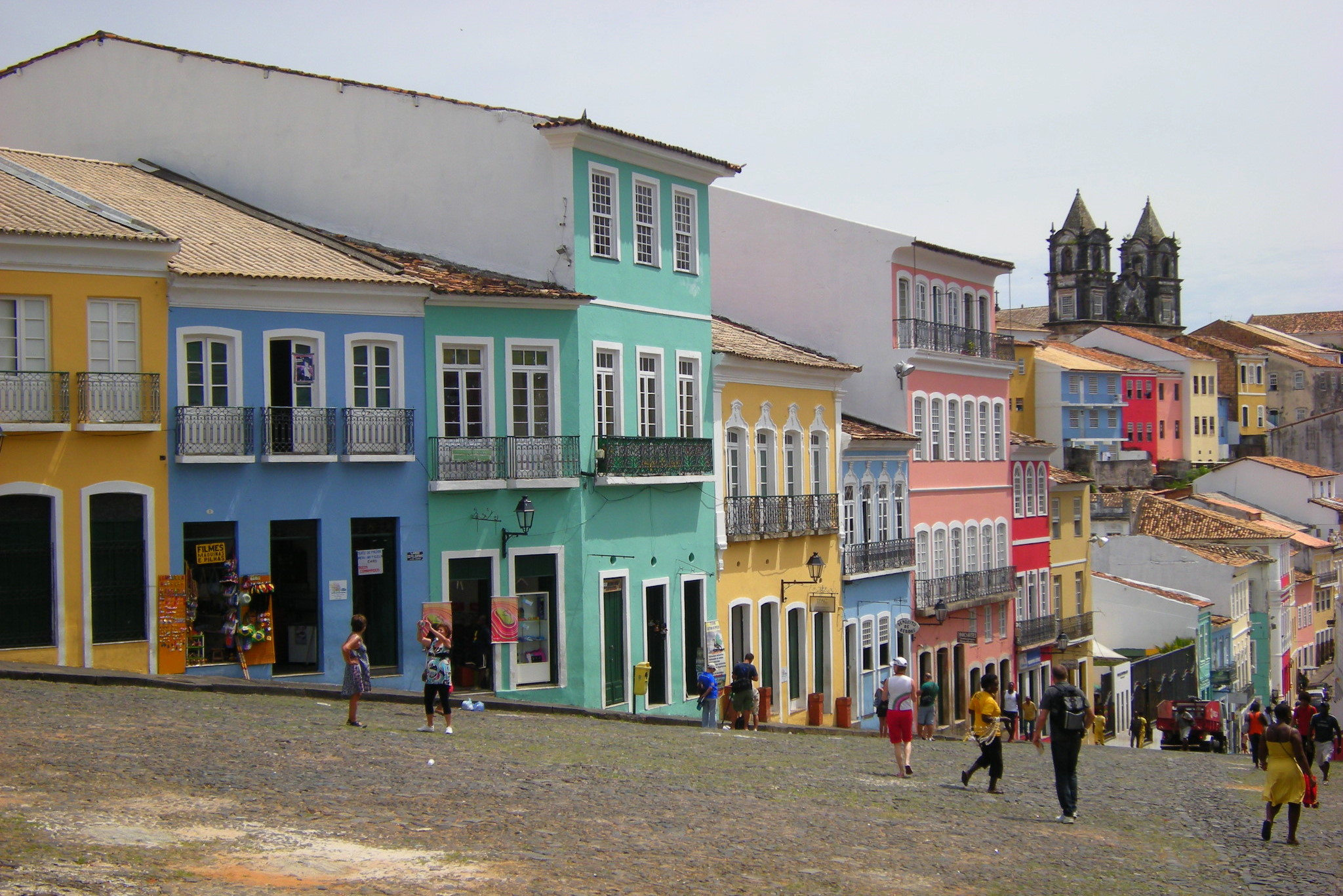 Historic City Centre - Salvador, Brazil